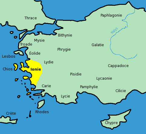 Map of Ionia in French. Adaptated from Image:Turkey ancient region map ionia.JPG.